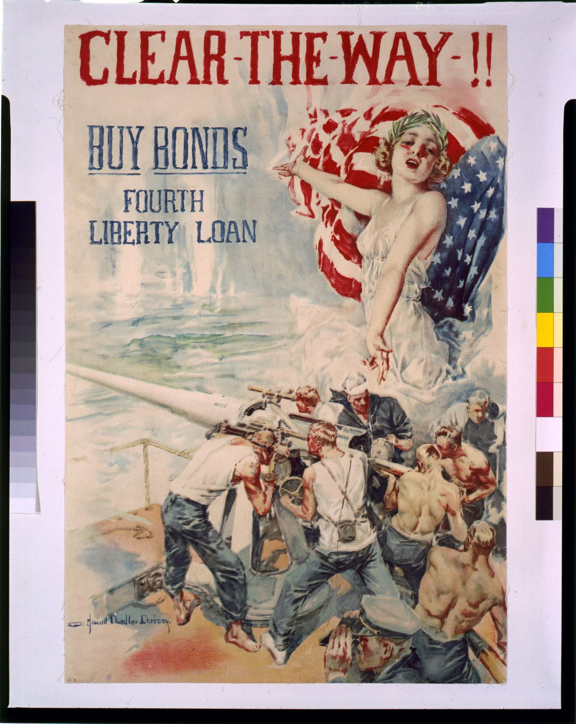 Title: Clear-the-way!! Buy bonds--Fourth liberty loan / Howard Chandler Christy. Abstract/medium: 1 print (poster) : color.